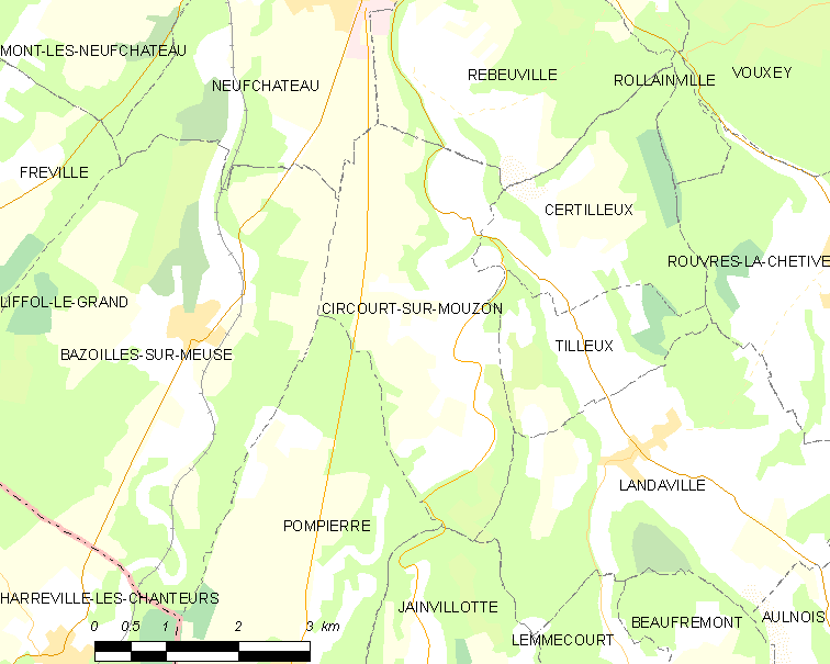 Map of French municipality Circourt-sur-Mouzon